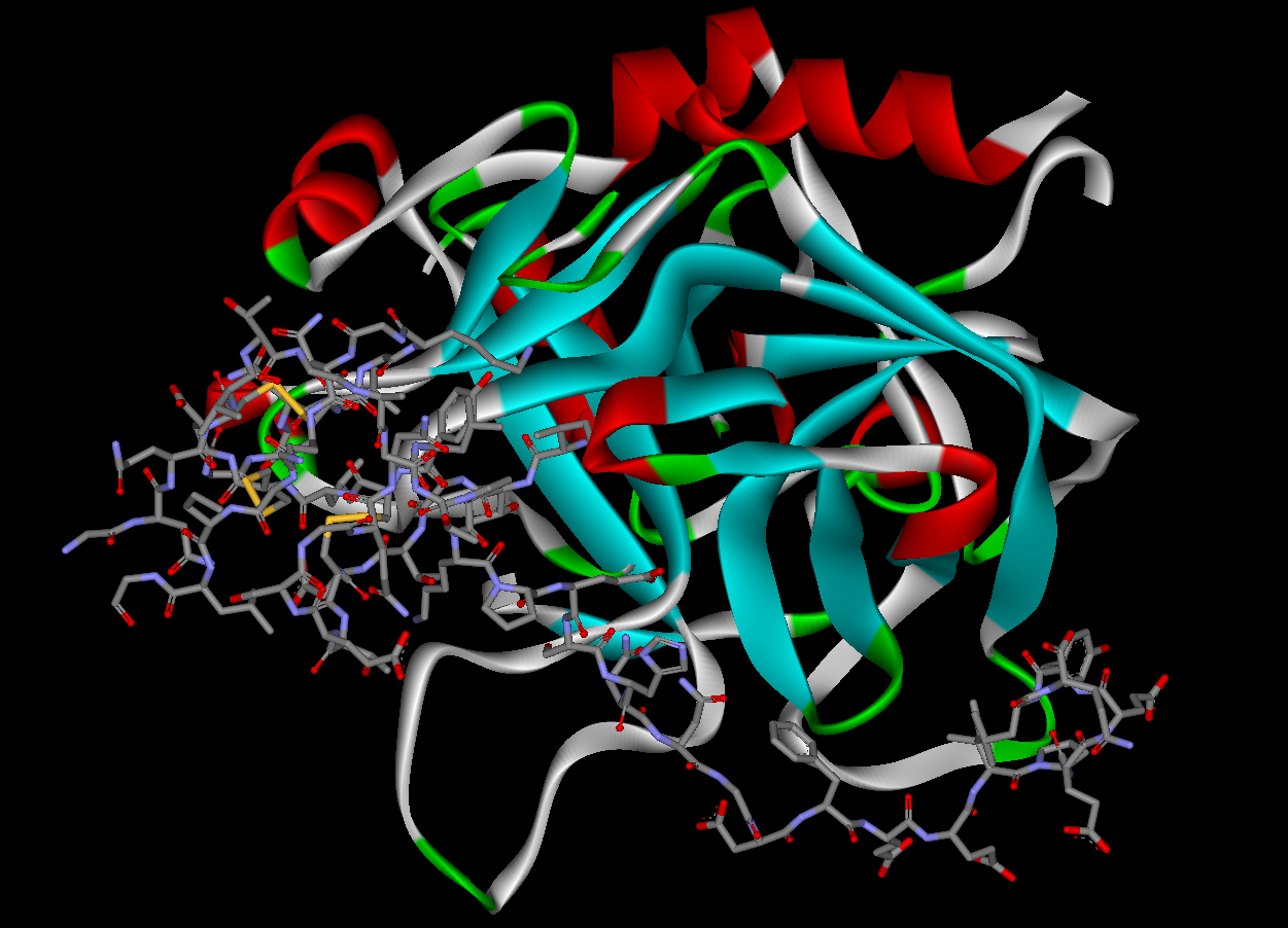 Hirudin im Komplex mit Thrombin. Hirudin ist in Form von "Sticks" dargestellt, das Thrombinmolekül als "Ribbon". pdb-Code 4HTC, T.J. Rydel et al., Science V. 249, S. 277 (1990)